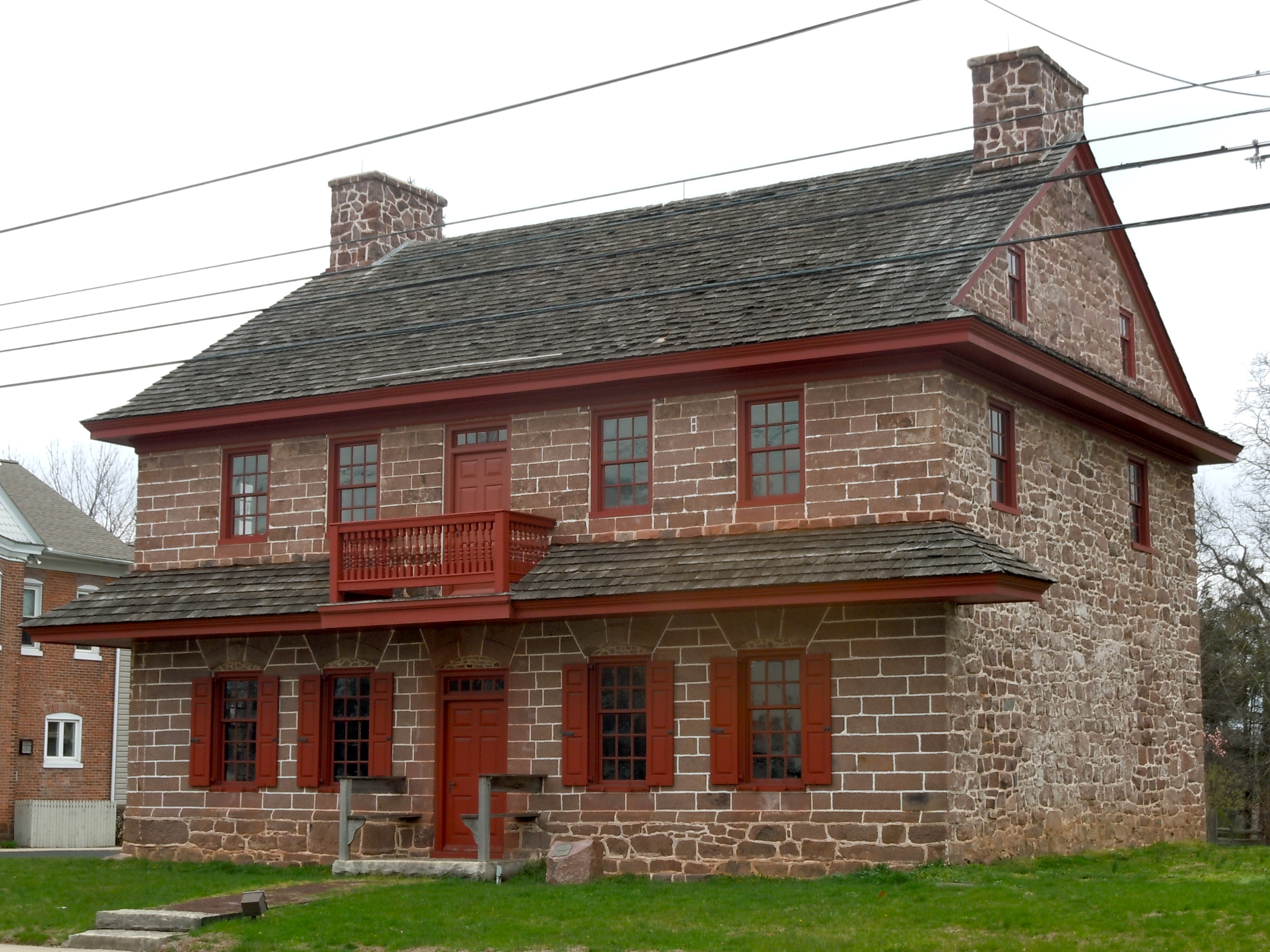 Henry Melchoir Muhlenberg House on the NRHP since February 18, 2000. At 201 West Main Street, Trappe, Montgomery County, Pennsylvania. Home of Muhlenberg, the major figure at the start of Lutheranism in America and of his son Frederick, the first Speaker of the US House of Representatives. Fred's own house is a couple of blocks south.